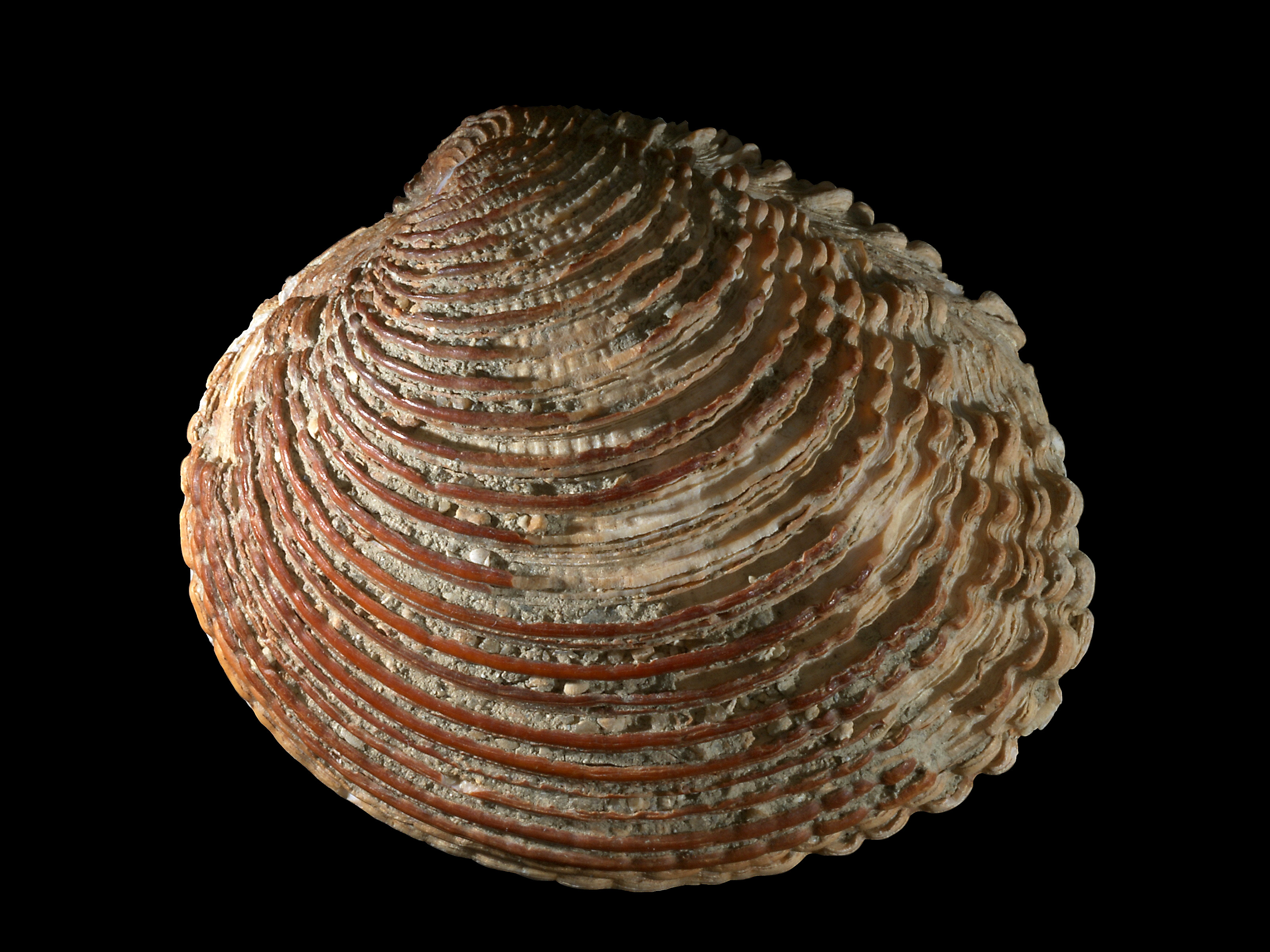 Warty venus from Roscoff, Brittany, France. Collected in 1985.